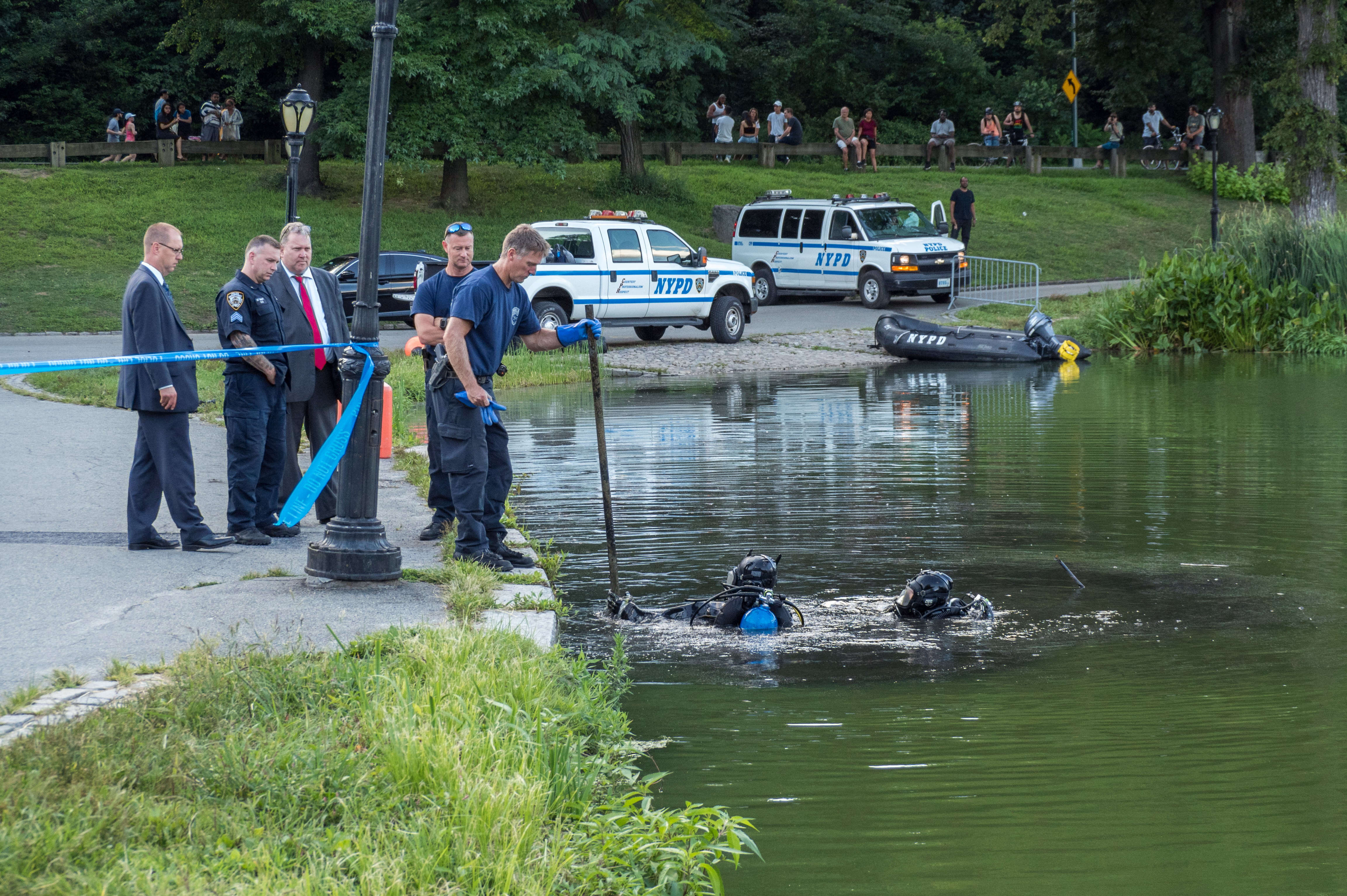 NYPD SCUBA team diving for evidence in Harlem Meer in Central Park. A few days earlier, a man was murdered in the area, by the Lasker Pool.